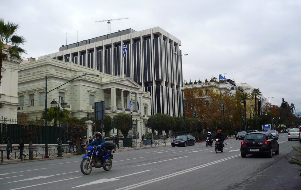 Vasilissis Sofias Avenue